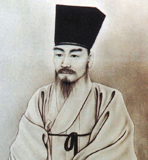 Jo Gwang-jo